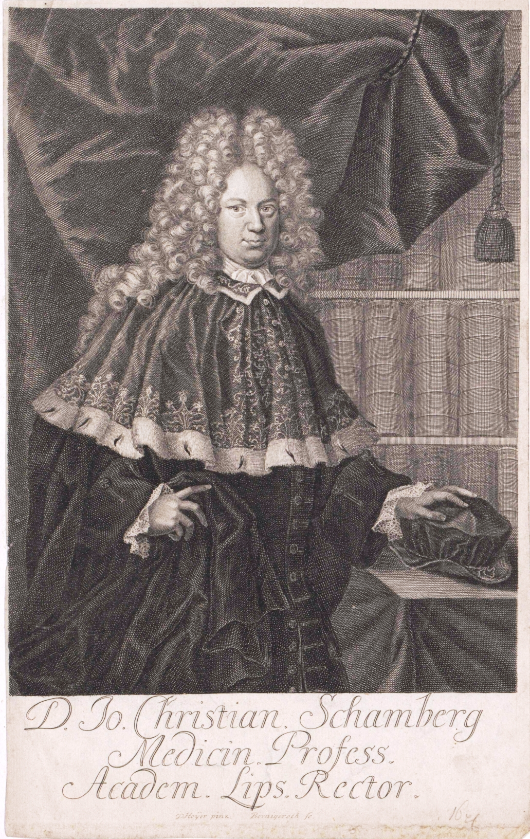 Portrait of Johann Christian Schamberg (1667–1706), German physician